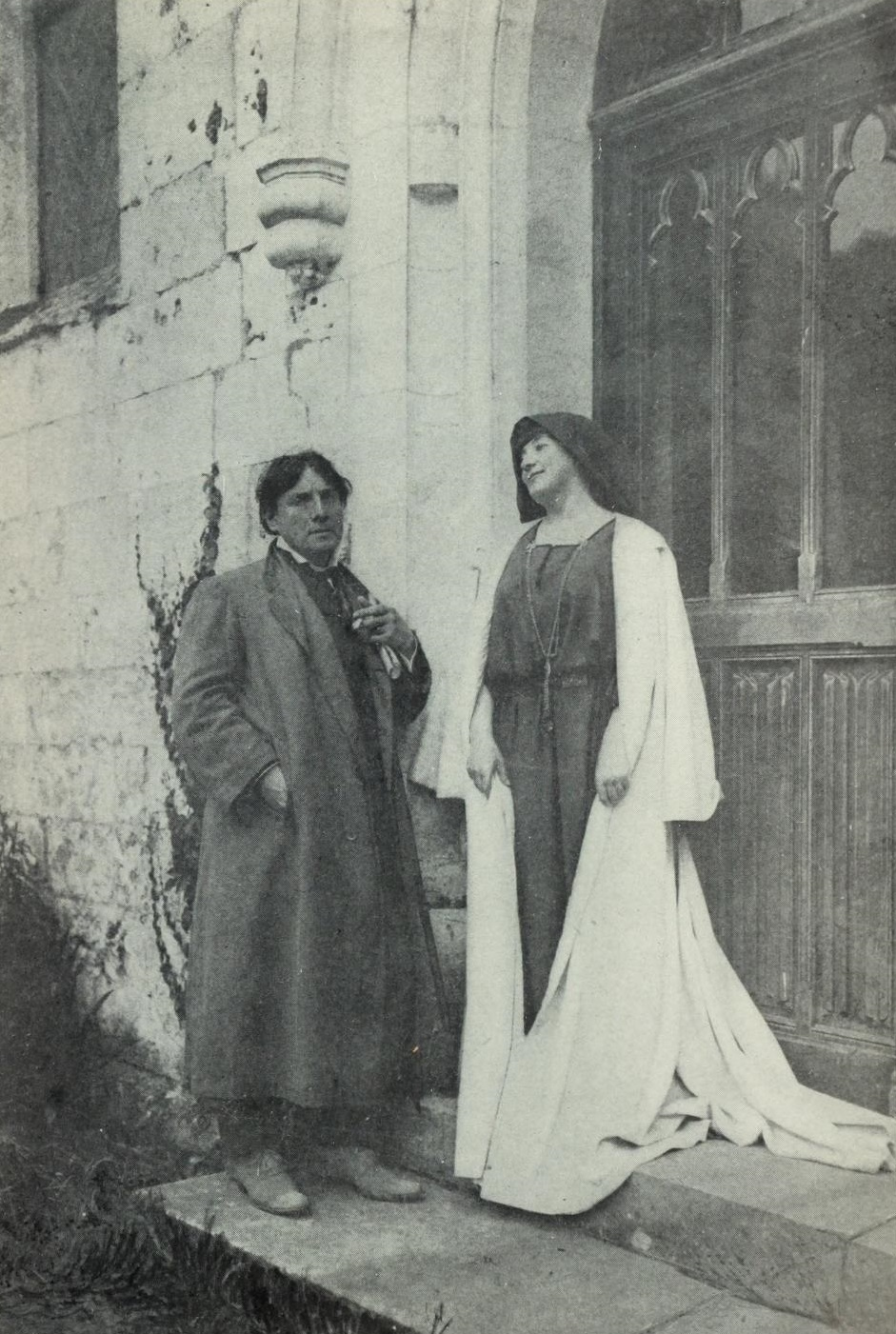 Maurice Maeterlinck and his Wife